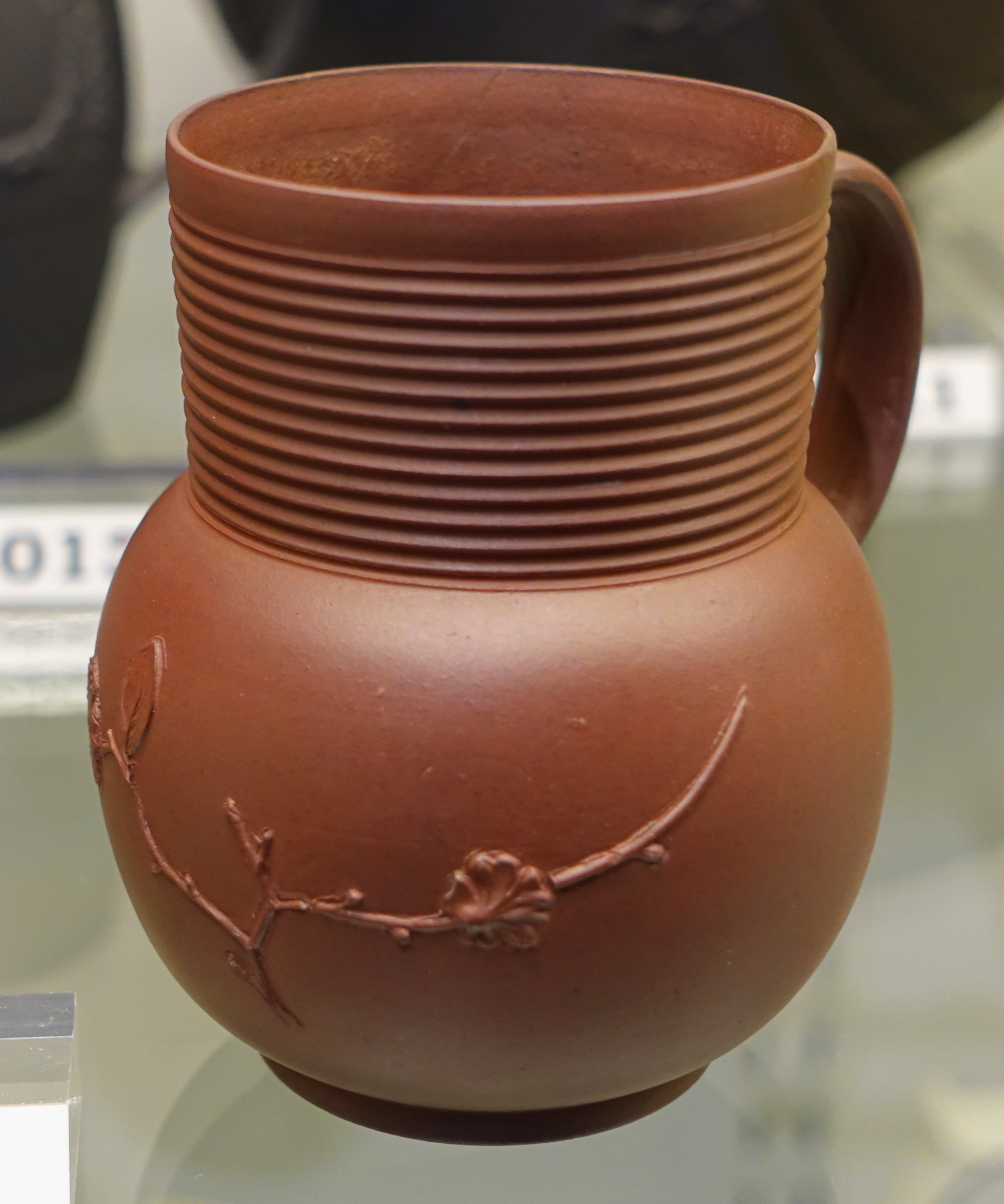 Exhibit in the Flynt Center of Early New England Life, Historic Deerfield - Deerfield, Massachusetts, USA.